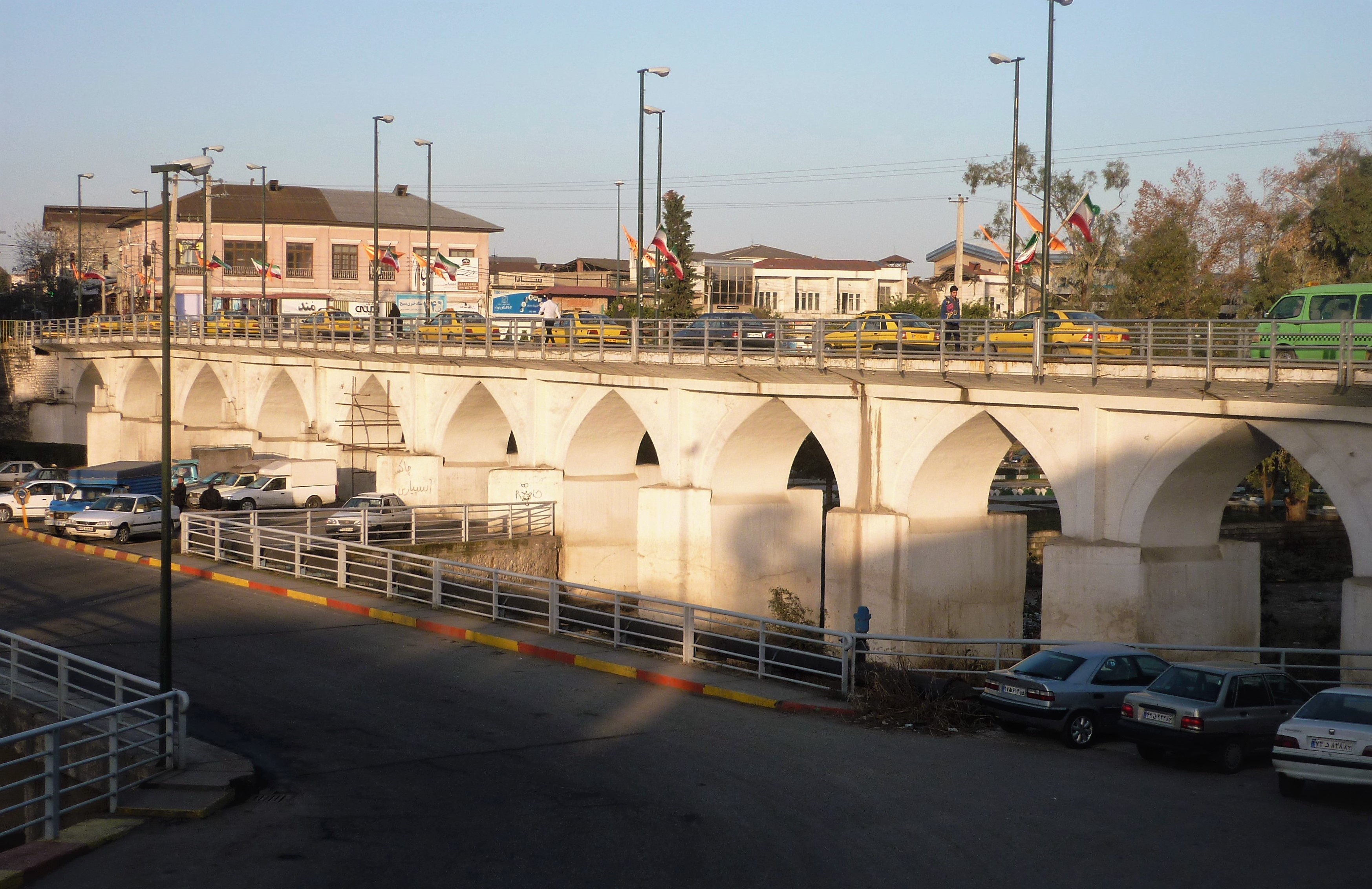 Davazdah Cheshmeh Bridge in day